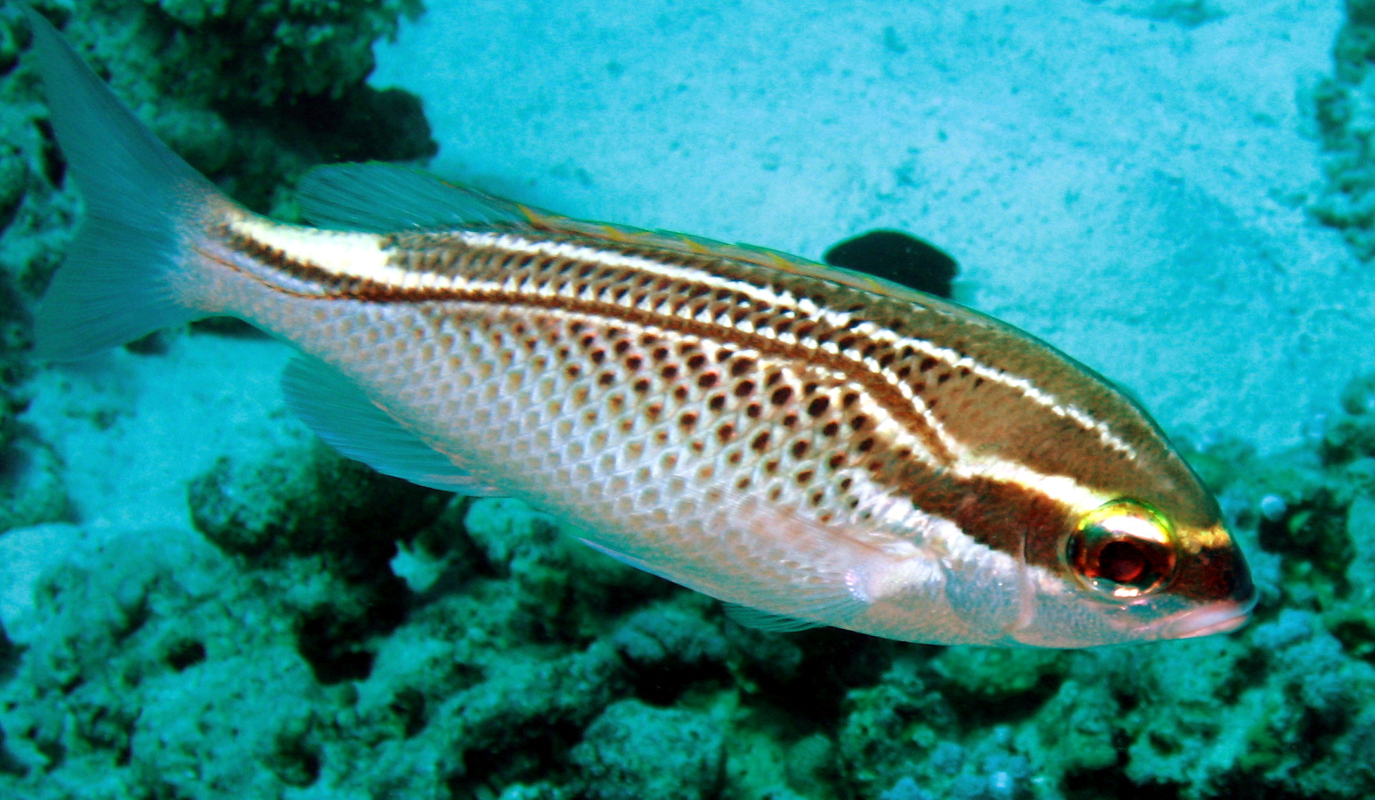 Scolopsis ghanam in Safaga